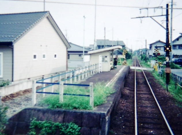 Meitetsu Tanigumi line Toyoki station (2001)